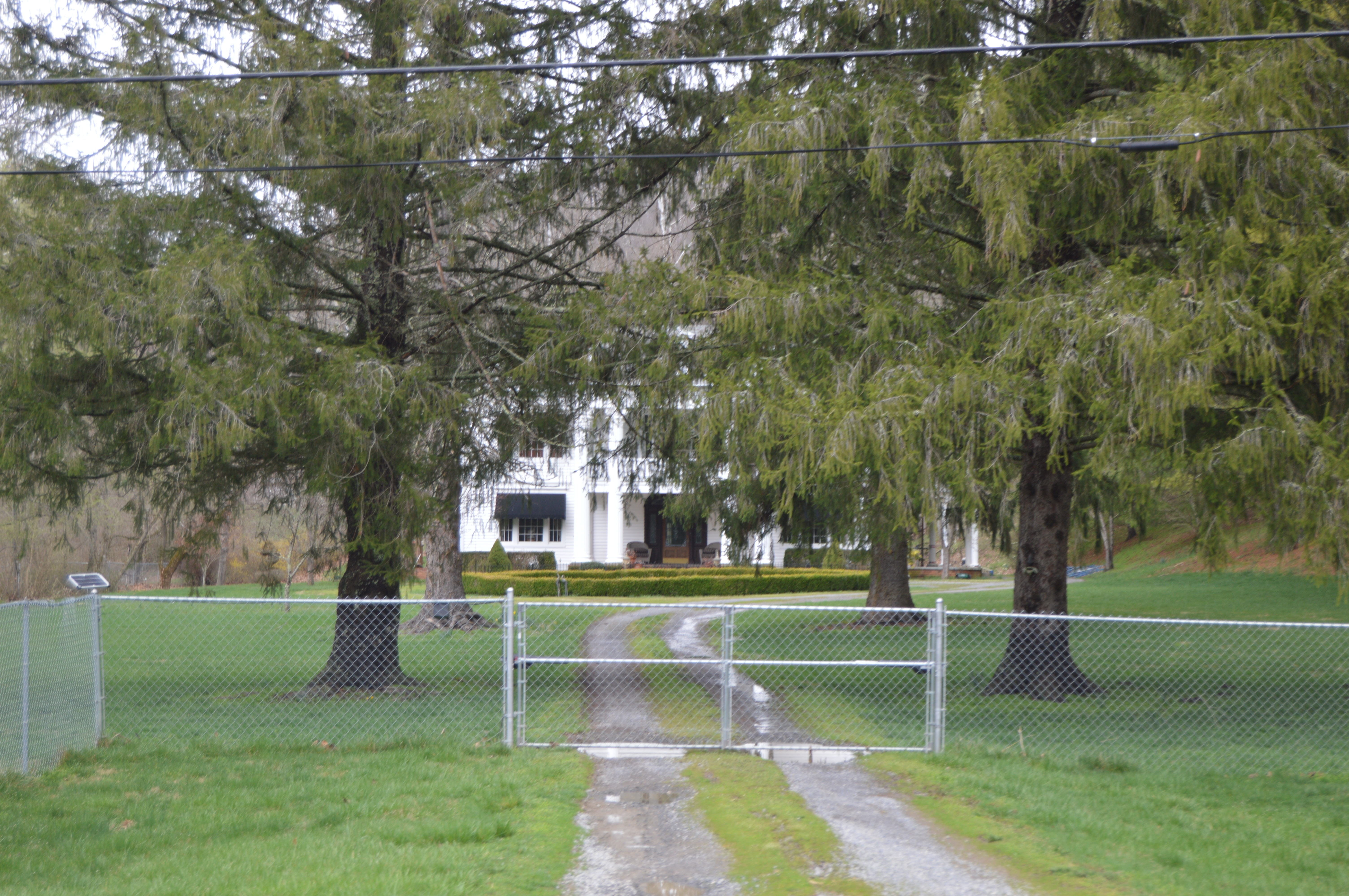 Roadside view of the McNeer House, located along U.S. Route 219 northeast of Salt Sulphur Springs in Monroe County, West Virginia, United States. Built in 1919, it is listed on the National Register of Historic Places.